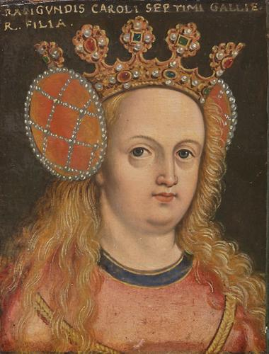 Radegund of France. daughter of Charles VII. She was promised to Sigismund, Archduke of Austria, but never married